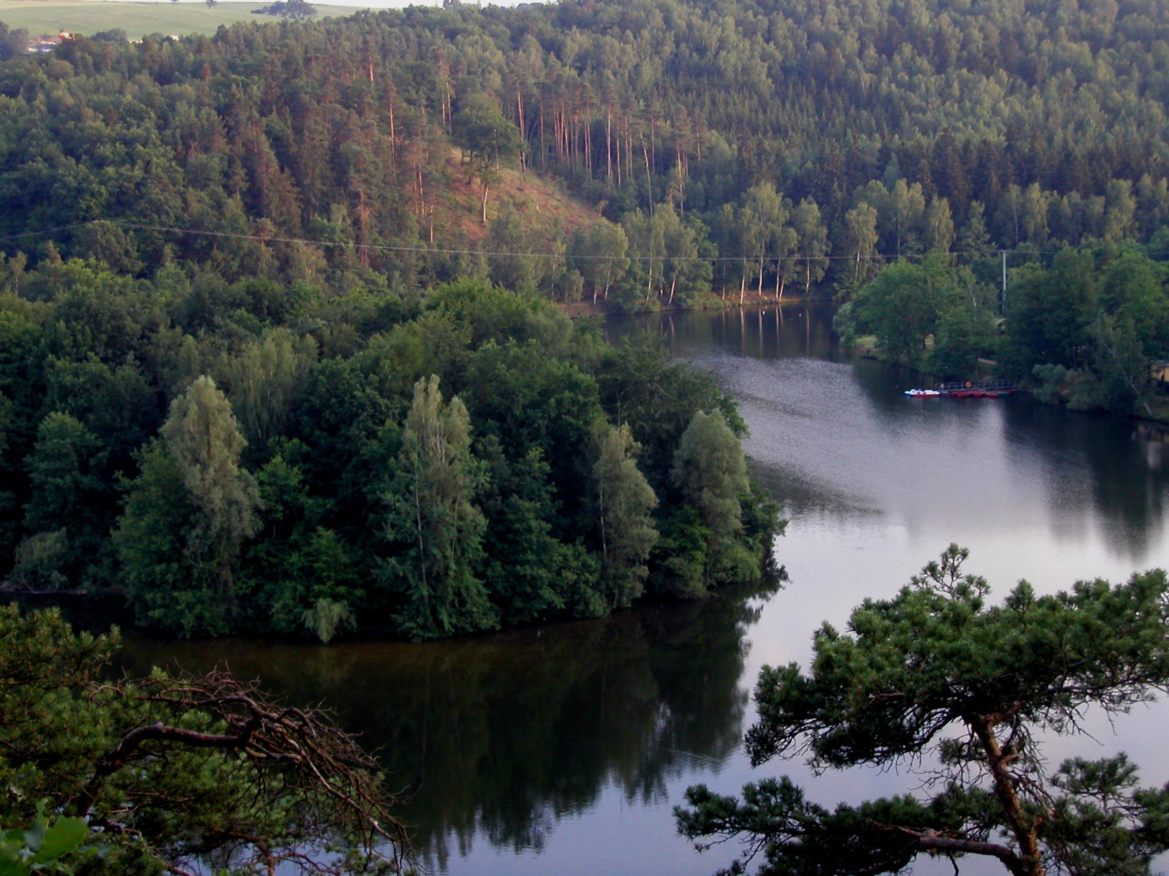 Aumatalsperre, Aumatal dam in Thuringia